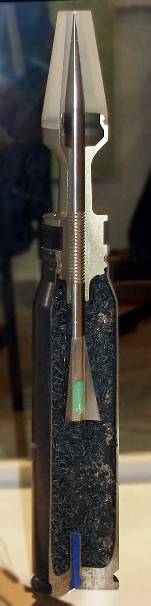 30 x 173 mm APFSDS-T ammo